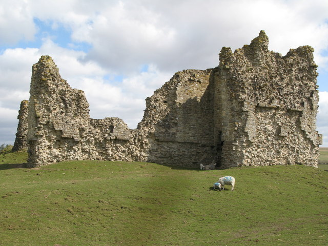 Bewcastle and (part of) its moat, near to Bewcastle, Cumbria, Great Britain. See NY5674 : Bewcastle .